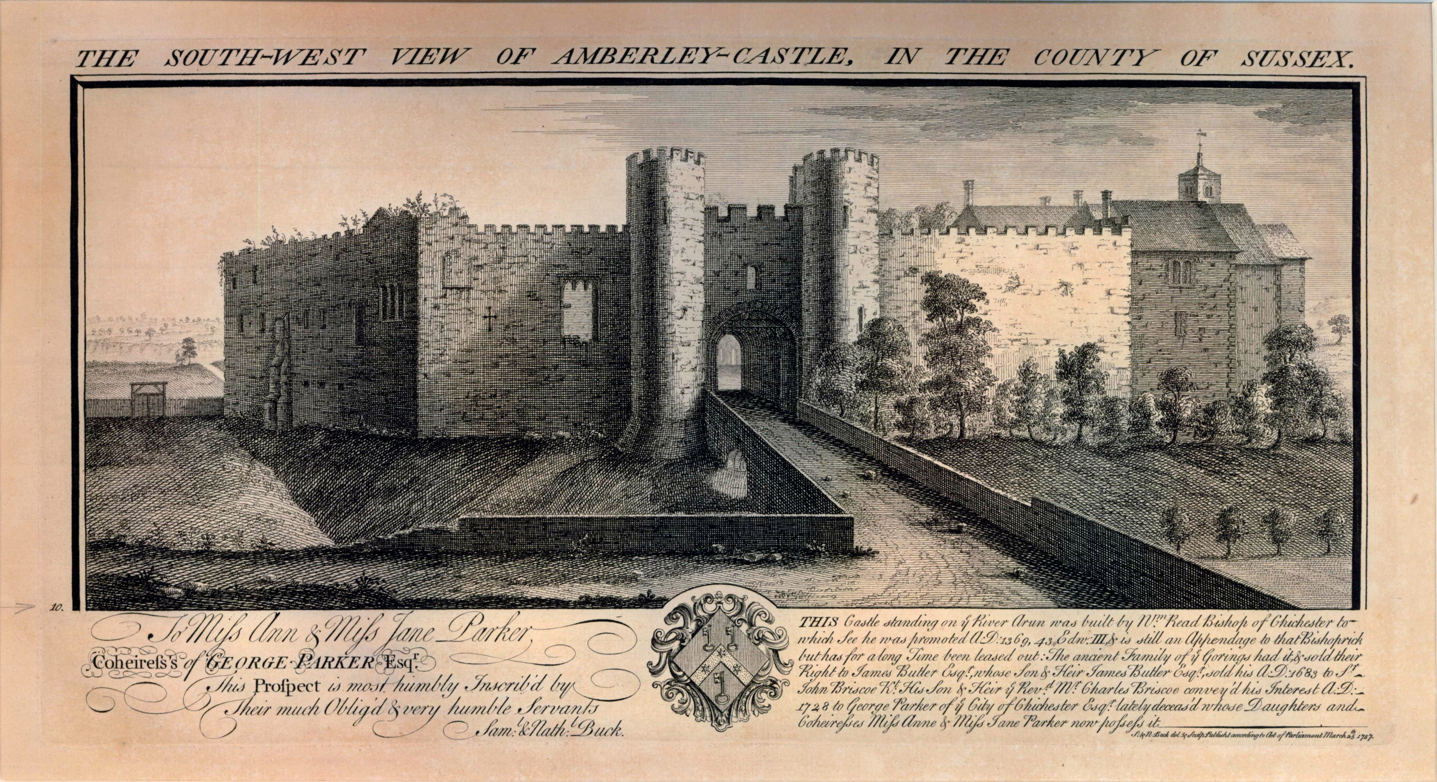 "The South-West View of Amberley-Castle, in the County of Sussex" engraving.